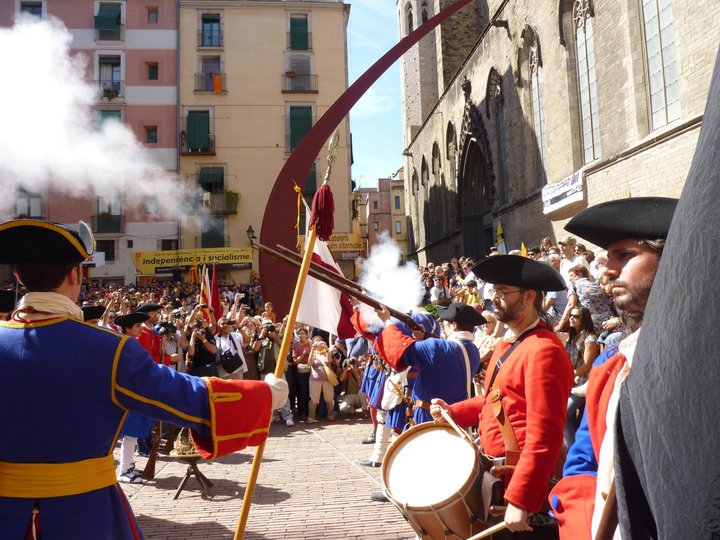 Gun salute for Catalans fallen in the Siege of Barcelona (1714), during the War of the Spanish Succession.